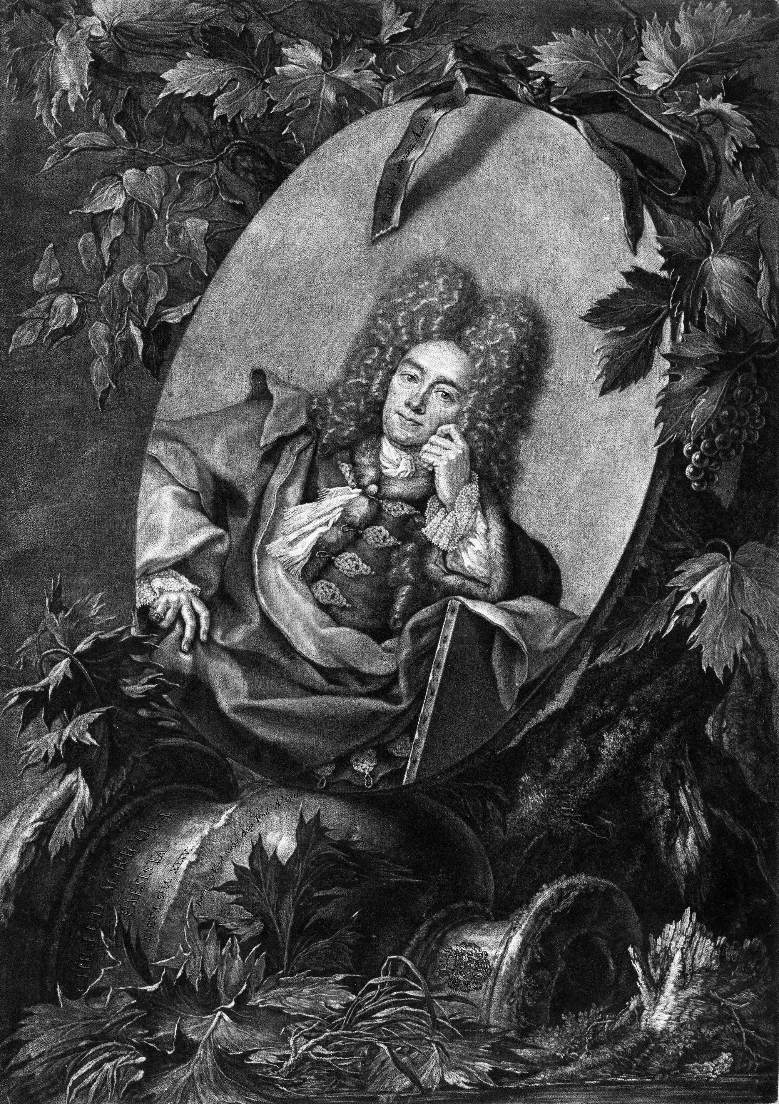 Depicted person: Christoph Ludwig Agricola